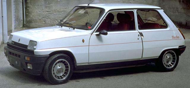 Renault 5 Turbo of the first generation